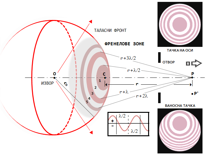 ФРЕНЕЛОВЕ ЗОНЕ